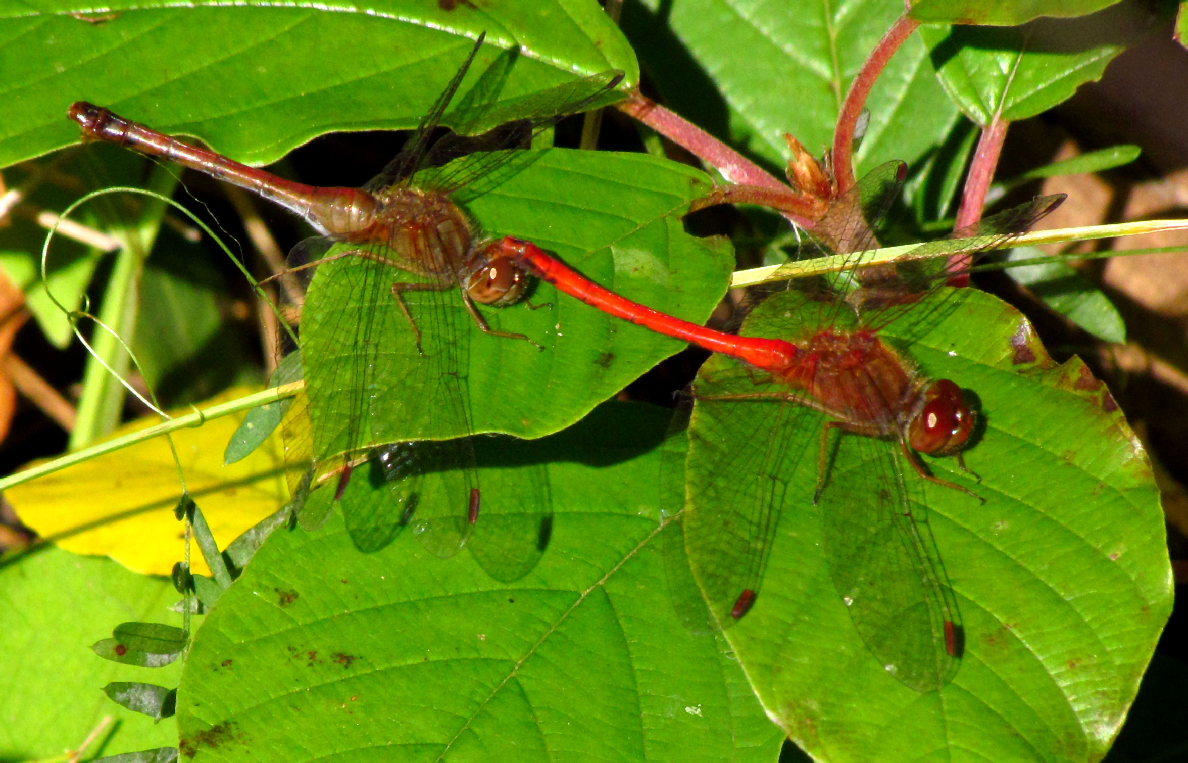 Autumn Meadowhawks (Sympetrum vicinum), in tandem position, Shirleys Bay, Ottawa, Ontario, Canada